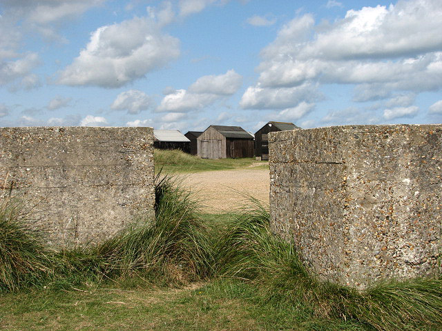 WWII concrete anti-tank cubes A twin line of anti-tank cubes once ran parallel to the coast to the rear of the dunes for about 100 metres, before turning almost due east towards the sea. Since covered by sand, a number of these cubes are now again being exposed by erosion and many of them have fallen onto the beach. A total of 94 concrete blocks are detailed on a map of a post-war coastal survey of defences: in August 1940 there was a single line numbering about 20 cubes, accompanied by a pillbox; the line was later doubled and lengthened. When the car park was built in 1973 these cubes were still in place. The anti-tank cubes are documented in the Defence of Britain database (reference number S0009102) from whence above information originates. Sheds or beach huts can be seen in mid-distance.